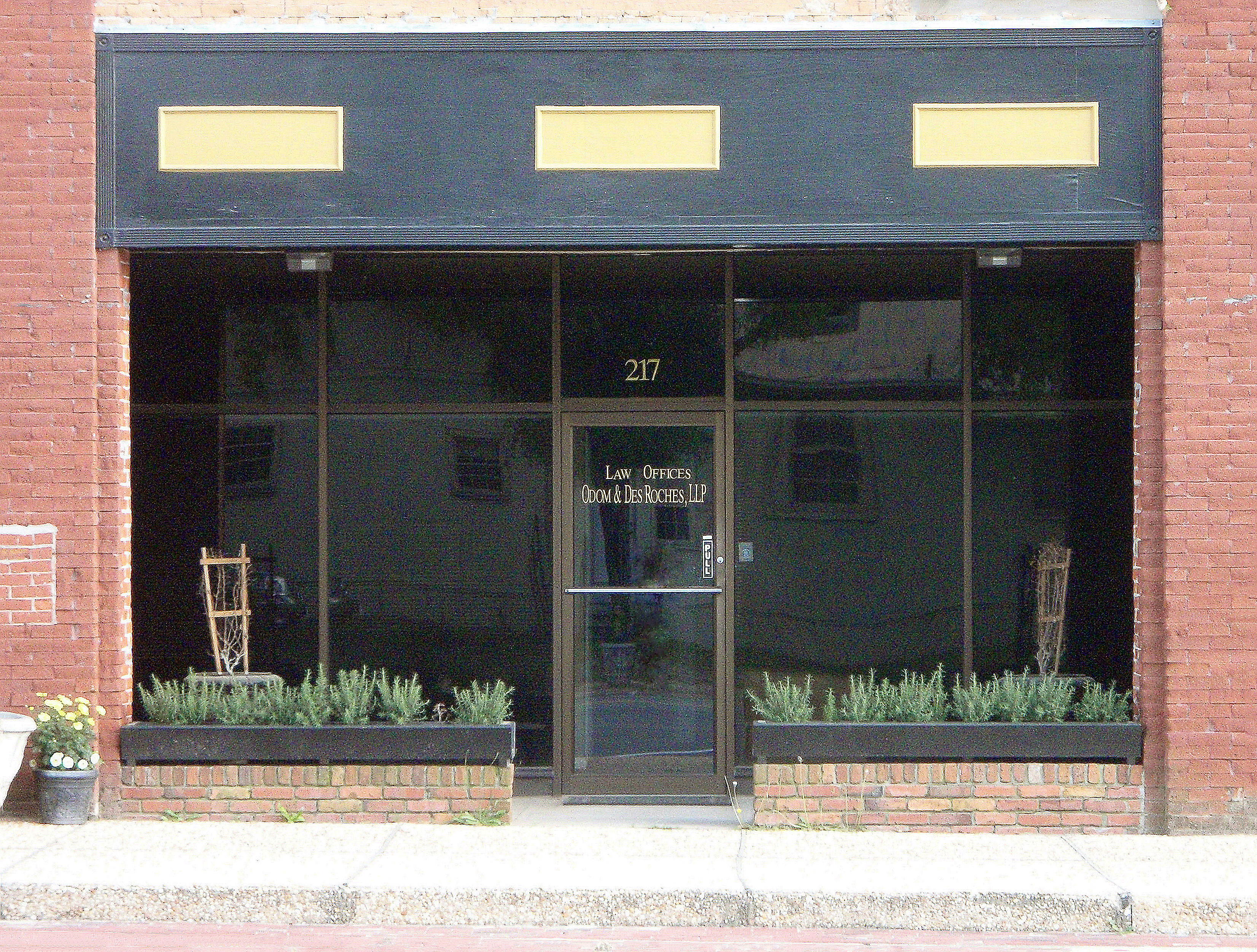 217 W. Main St. Hahira Building, Lowndes County, Georgia. Exterior view of law office.